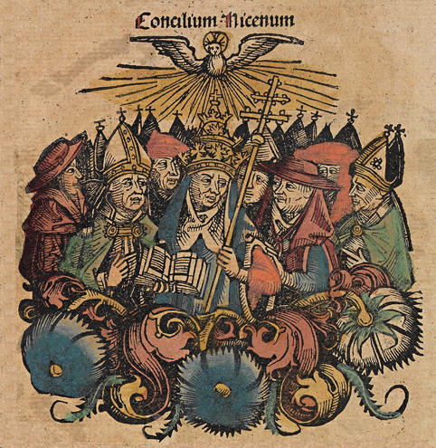 Illustration from the Nuremberg Chronicle